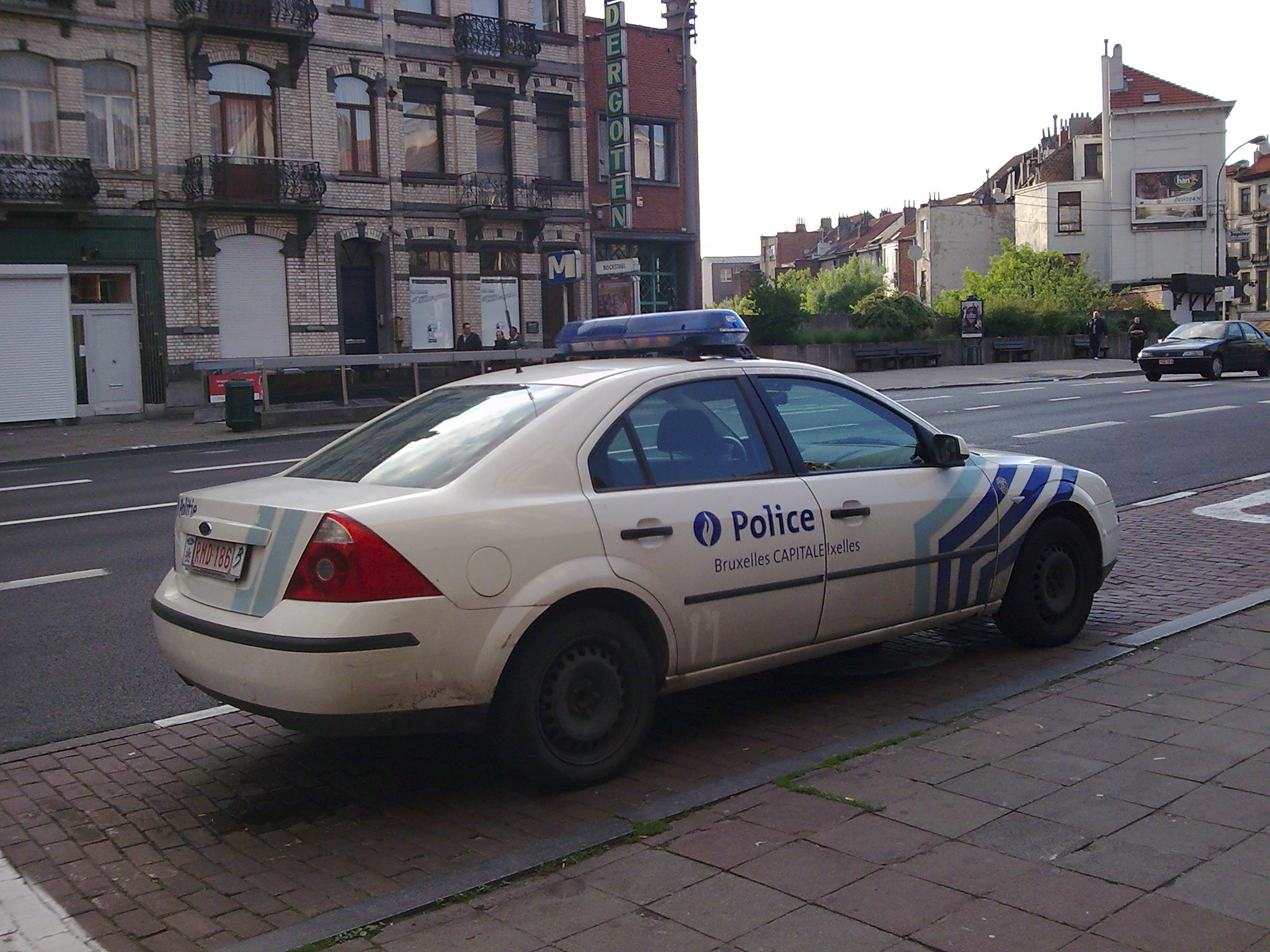 Ford Mondeo used by Belgian Police seen on Bockstael Avenue.